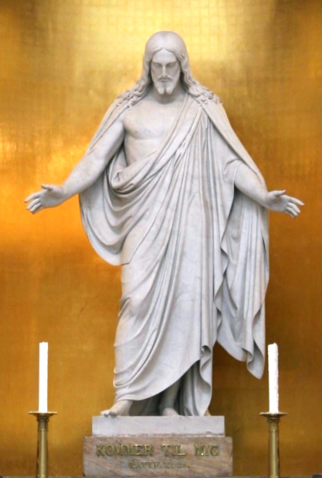 Statue of Christ, by Thorvaldsen, Vor Frue Kirke, Copenhagen. The inscription at the base reads "Kommer til mig" ("Come to me") with a reference to the Bible verse: Matthew 11:28.